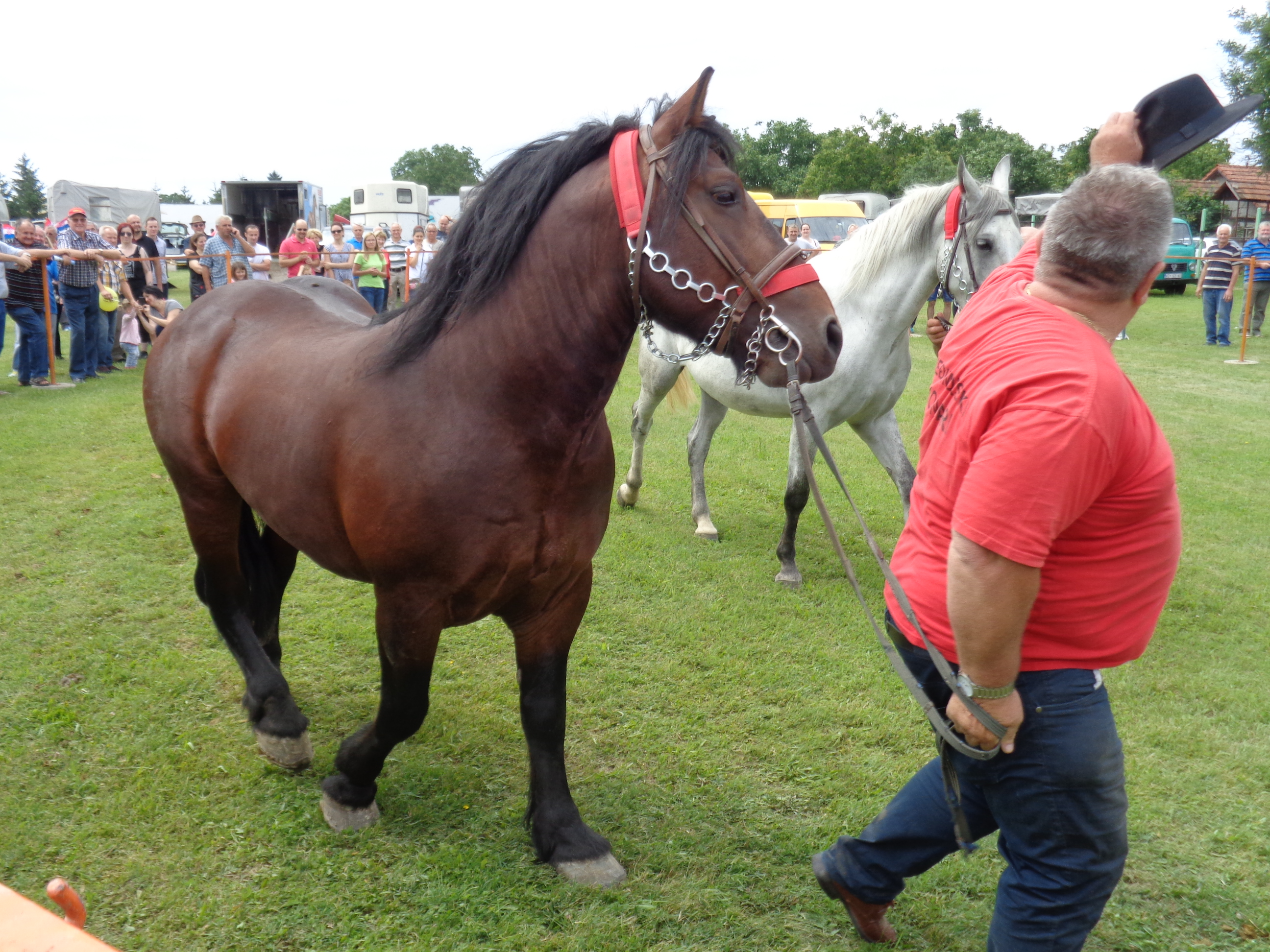 Croatian Coldblood, horse breed of Croatia, at 2018 MESAP Trade Fair in Nedelišće, Medjimurie County - presentation